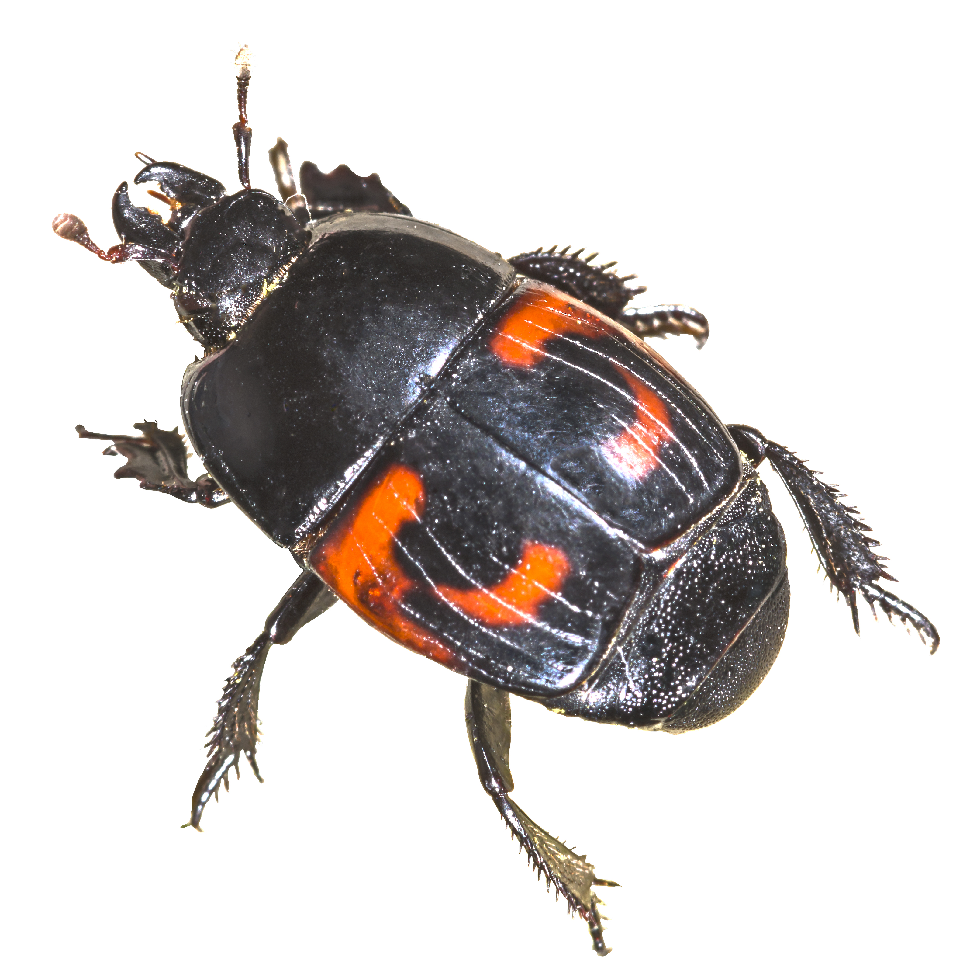 Hister quadrimaculatus. Dorsal side